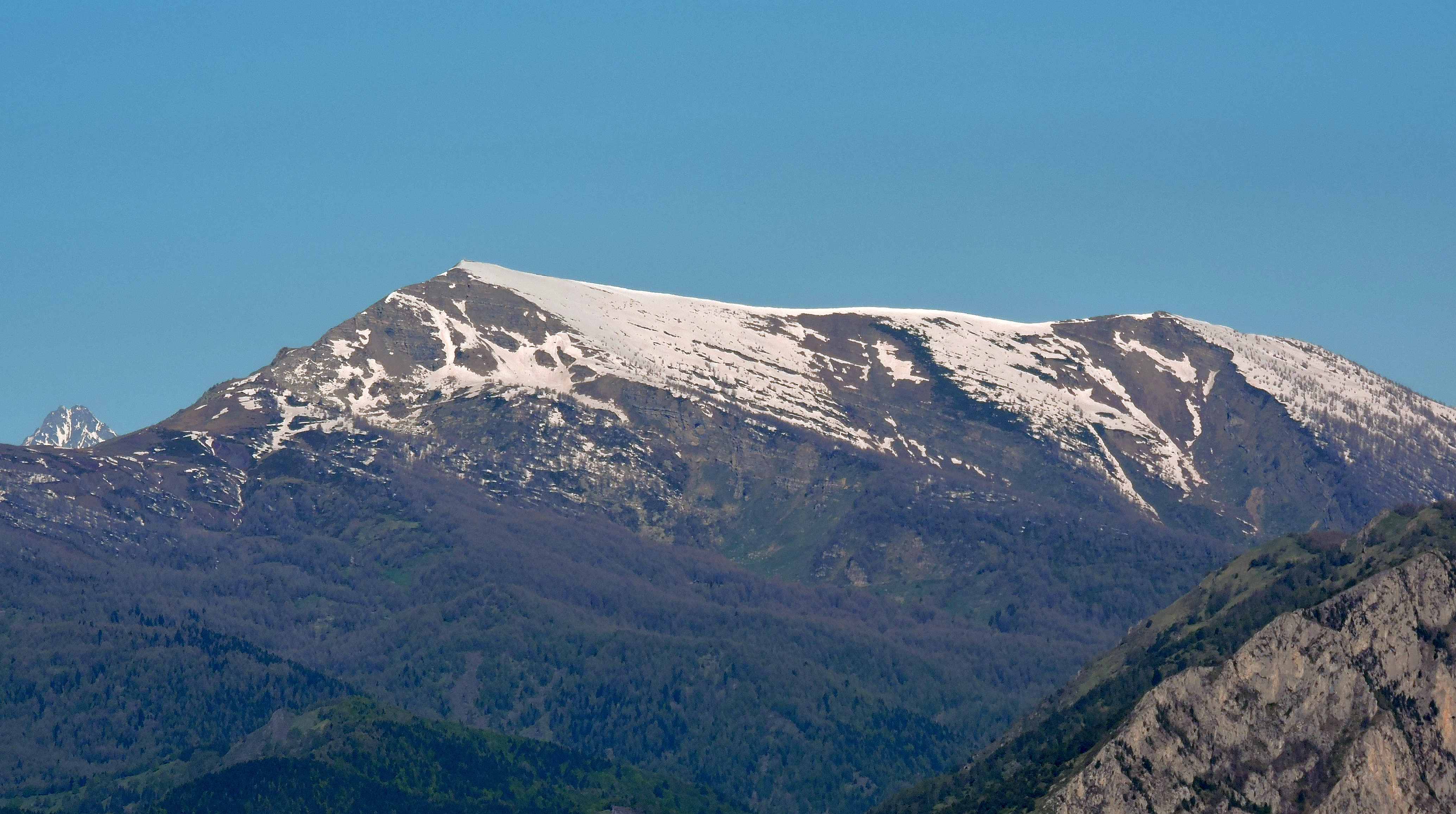 Monte Bertrand (Ligurian Alps) as seen from Monte della Guardia